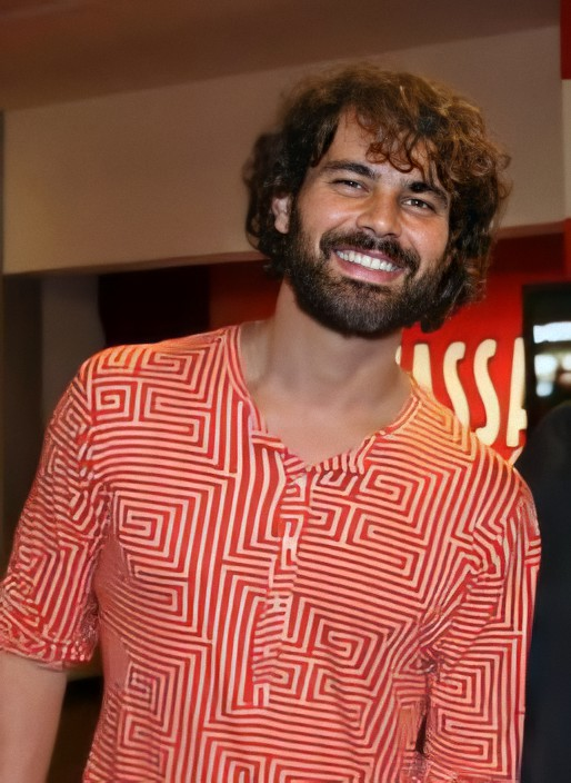 Carmo Dalla Vechia, brazilian actor.